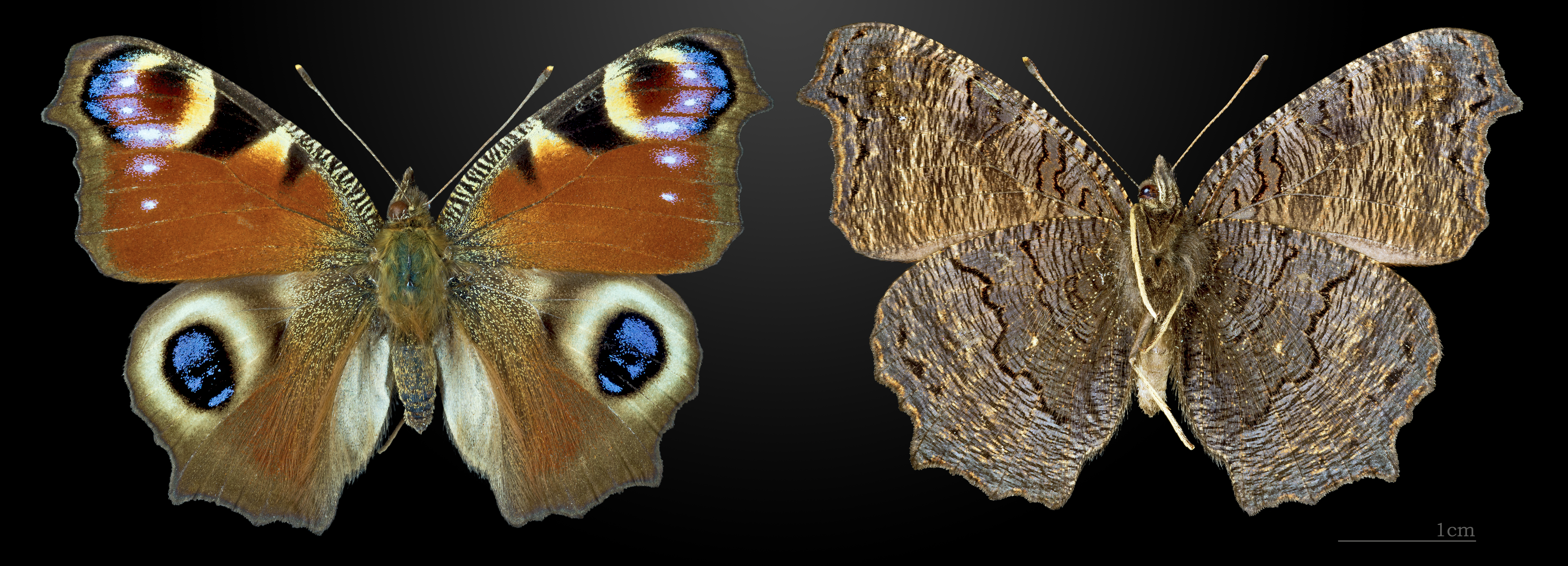 European Peacock - Two views of same specimen